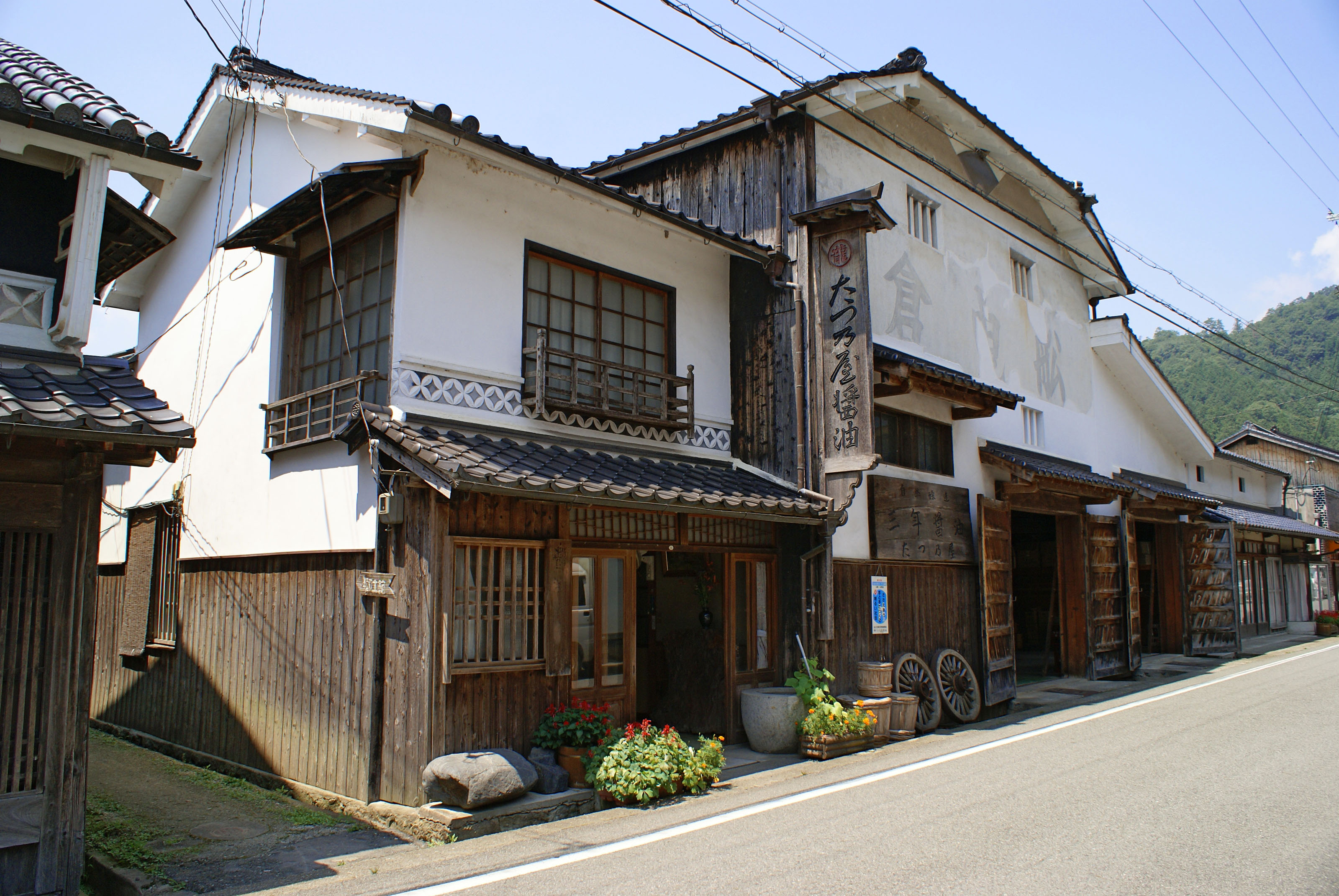 Scenery of Hirafuku in Sayo, Hyogo, Japan